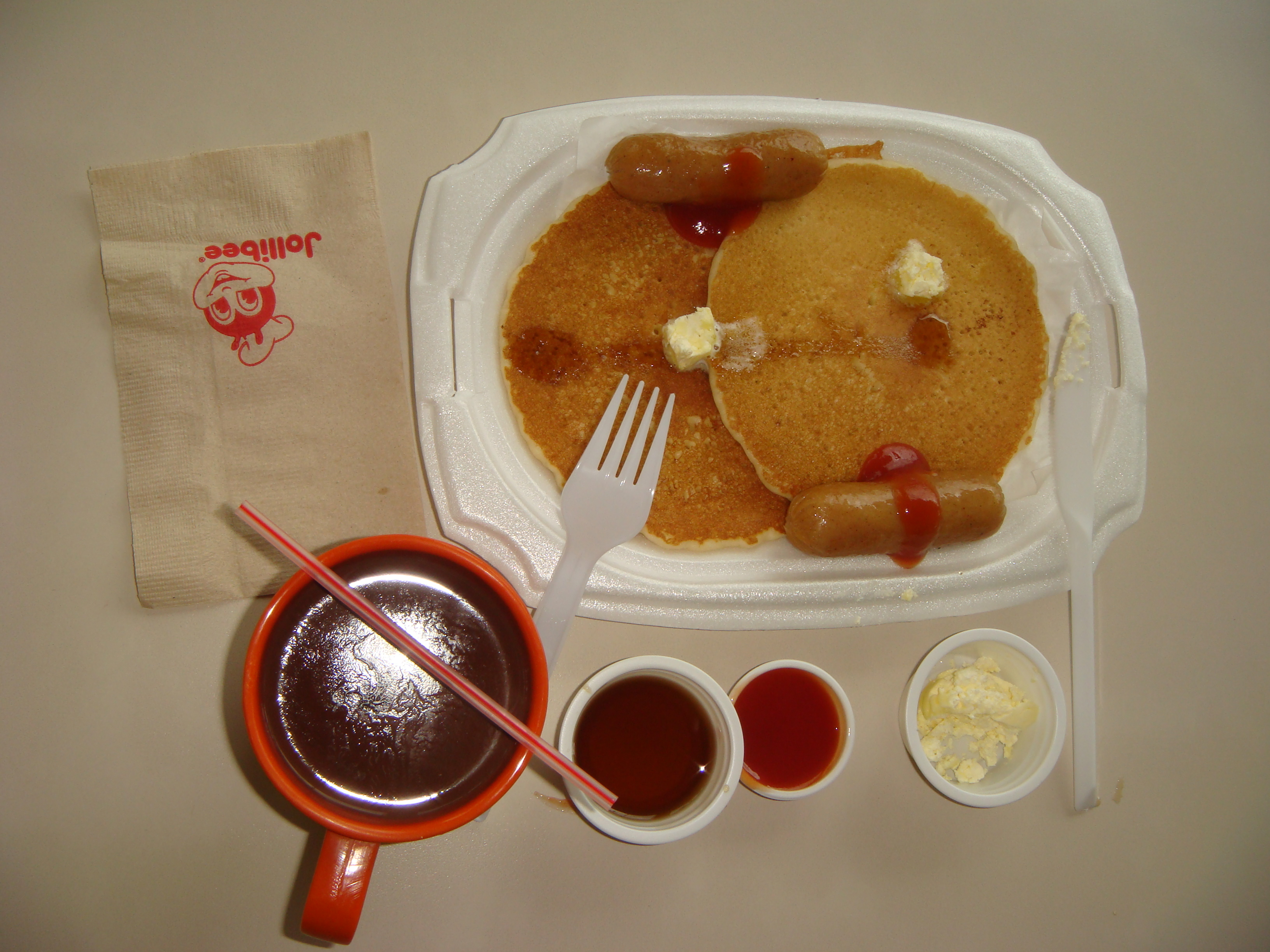 Jollibee breakfast (chicken sausage, pancake and hot chocolate.